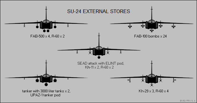 Front-view silhouettes showing Sukhoi Su-24 external stores